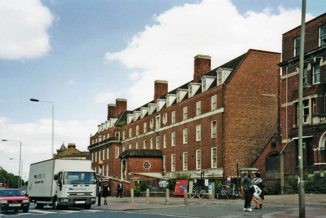 South London Hospital for Women, Clapham Common South Side The South London Hospital for Women, Clapham Common South Side was entirely staffed by women. The hospital was founded in 1912 and opened by Queen Mary on July 4th 1916. It was enlarged in the 1930s and closed down in 1984. Currently it is being demolished to make way for a superstore and residential development.